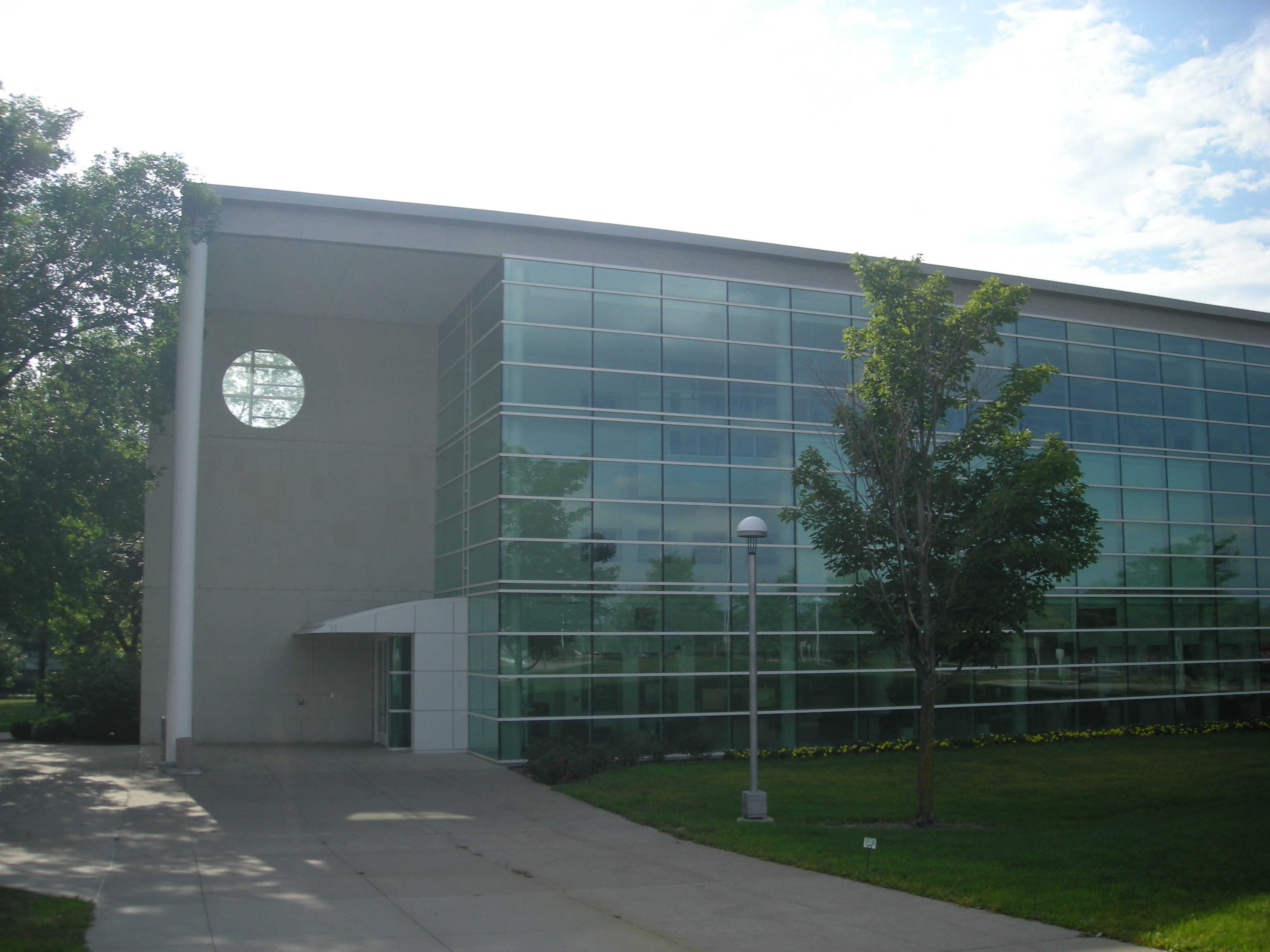 The Timme Center on the campus of Ferris State University in Big Rapids, Michigan (United States).